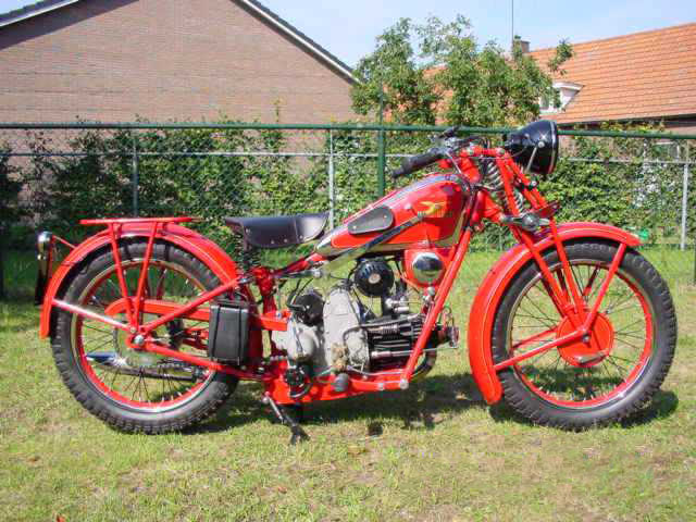 Moto Guzzi 1934 Sport 15.